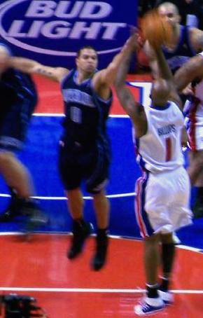 Deron Williams Utah